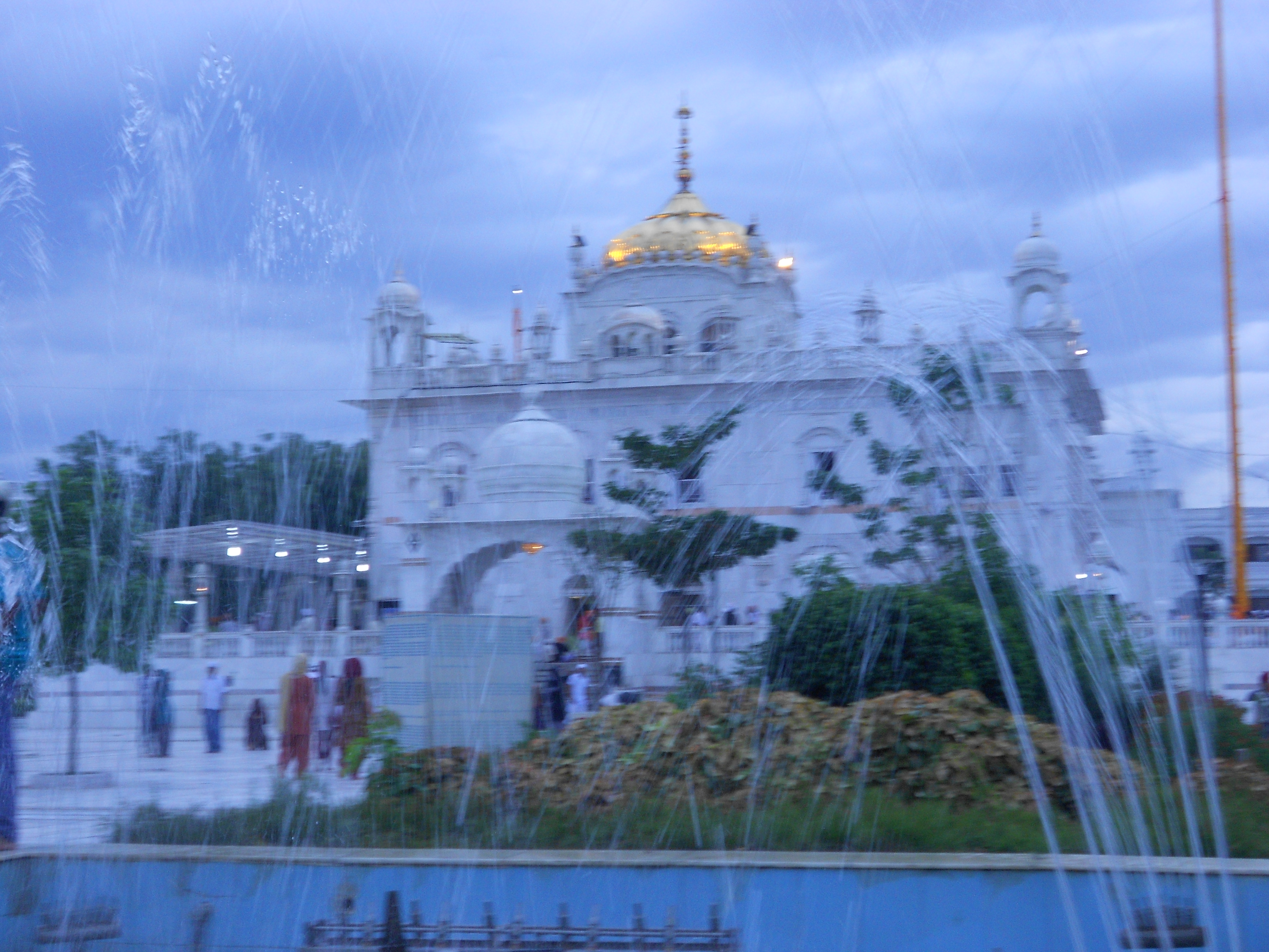 Sri Hazur Sahib's view from the fountains